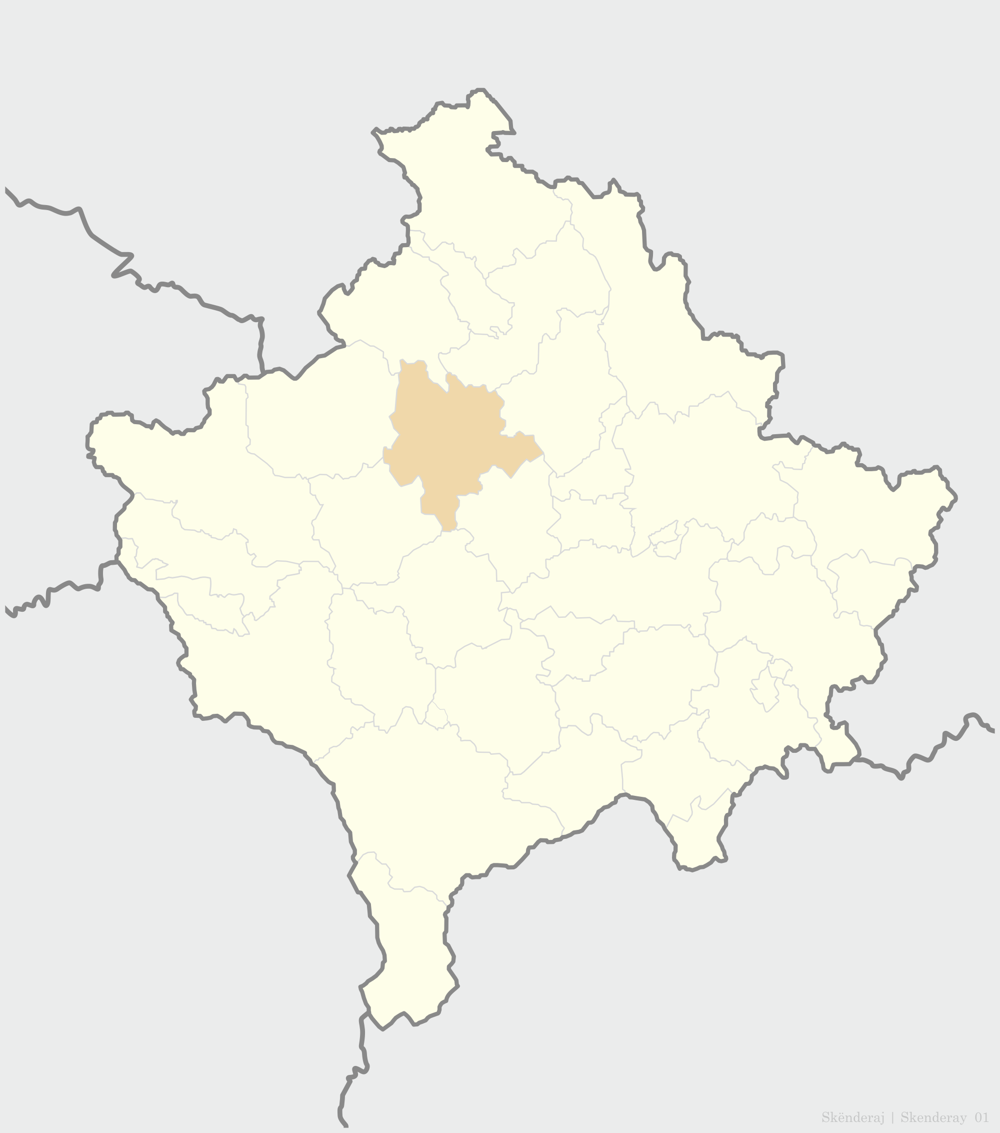 Municipality of Srbica map